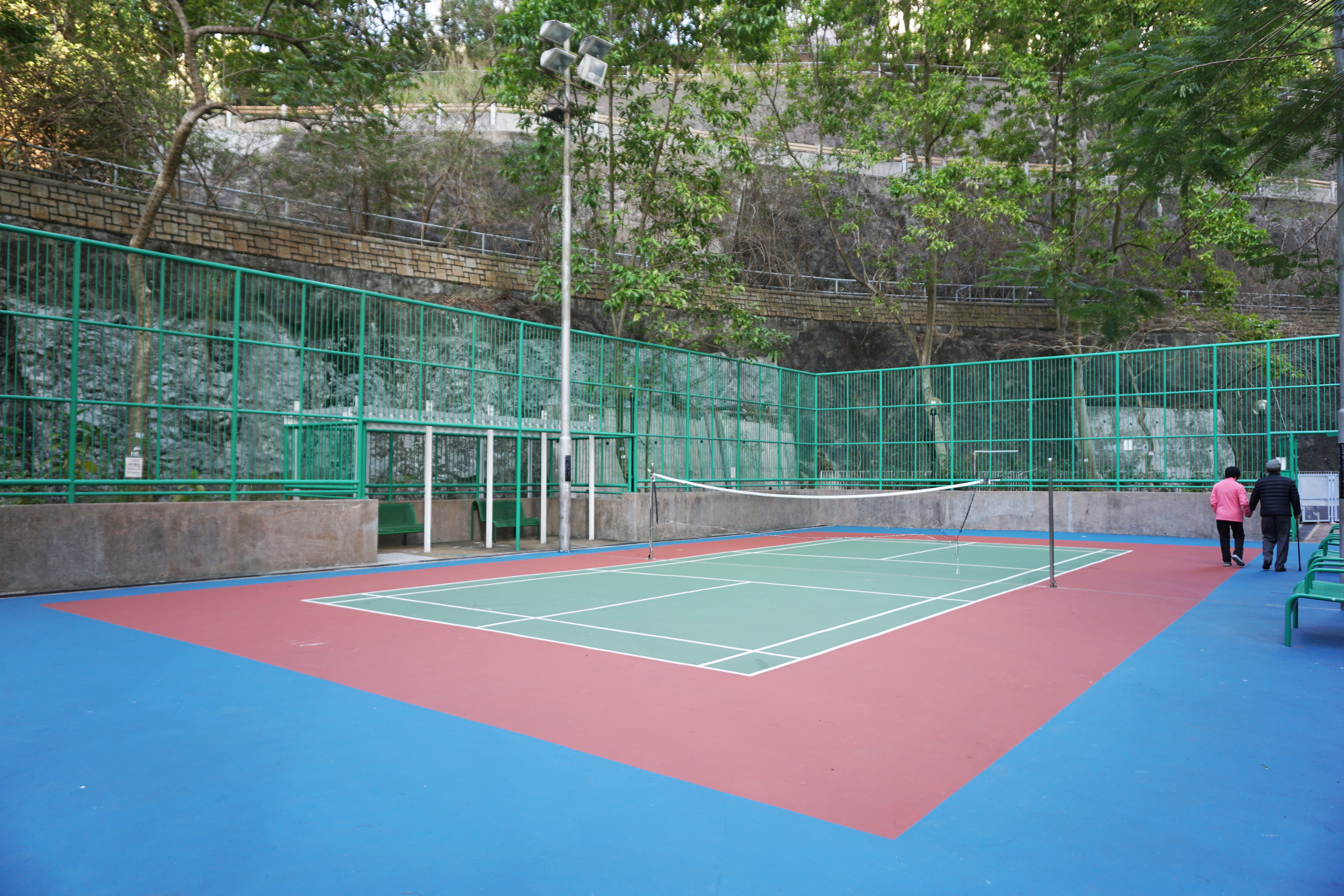 Shek Yam East Estate in Shek Yam, Hong Kong.